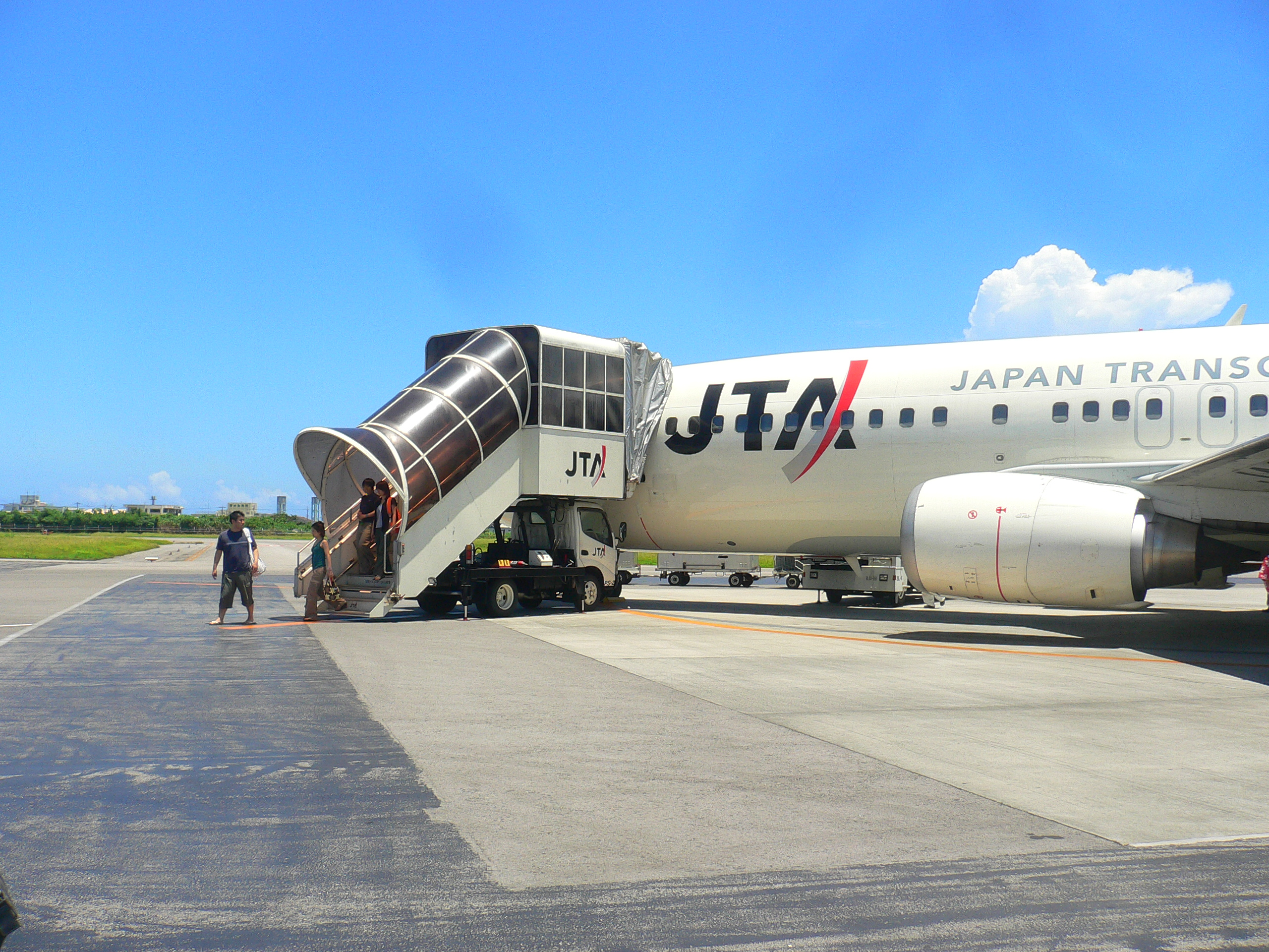 Ishigaki Airport (石垣空港), Ishigaki C, Okinawa P.